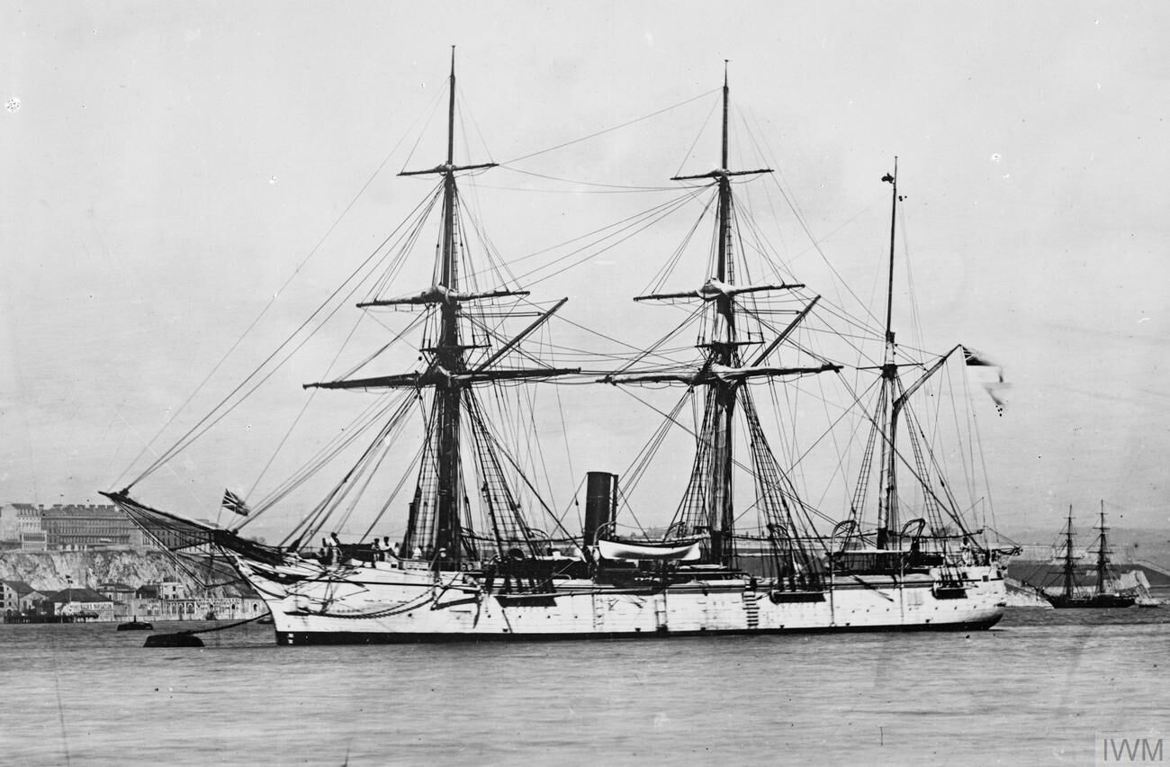 Photograph of British Plover class gunvessel HMS Woodlark.